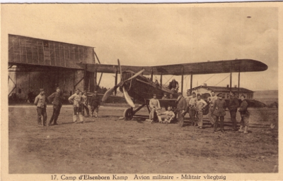 Military base at Elsenborn (Belgium) after the First World War. The airplane is most probably an Airco DH.4.